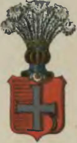 Coat of arms Tarnawa from Die polnischen Stammwappen by Emilian Szeliga-Żernicki